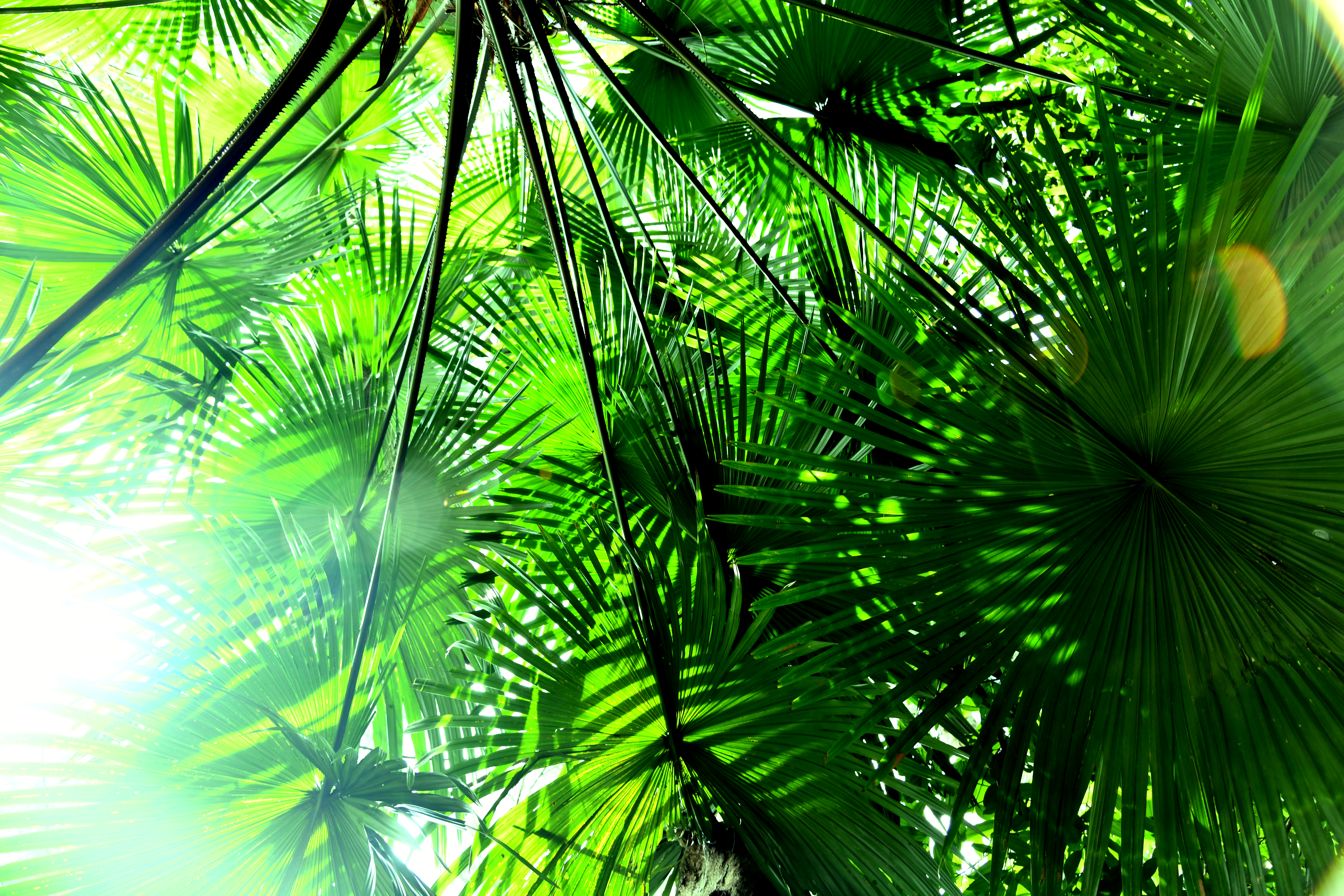 Khao Lam Nam National Park - Thai Mueang Beach อุทยานแห่งชาติเขาลำปี-หาดท้ายเหมือง